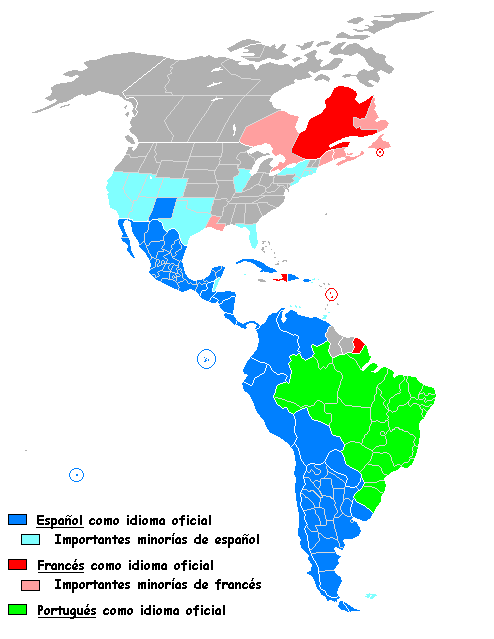 Latin America.